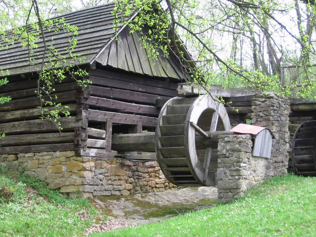 Sawmill building in Svidnik skansen.